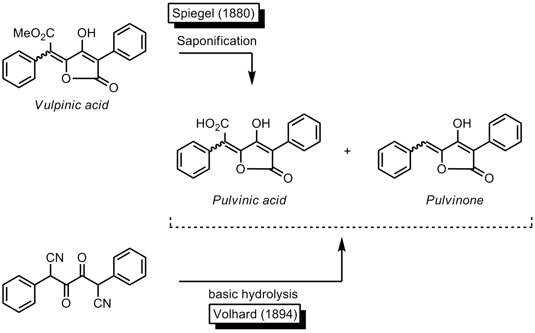 First syntheses of pulvinic acid and pulvinone, (AlChimini, AlChimini, 2008-05-24)